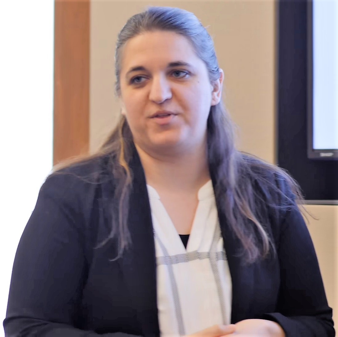 Legislative Capacity Working Group: Weak Parties and Strong Partisanship R Street Institute is a nonprofit, nonpartisan, public policy research organization. Our mission is to engage in policy research and outreach to promote free markets and limited, effective government. How can we have weak parties in Congress yet historically high partisanship? What do such paradoxes mean for Congress and its relationship with Trump? On April 20, 2018, contributor and Marquette professor Julia Azari broke down internal party dynamics, and explained how we got here and how she sees these dynamics playing out heading into the 2018 elections.